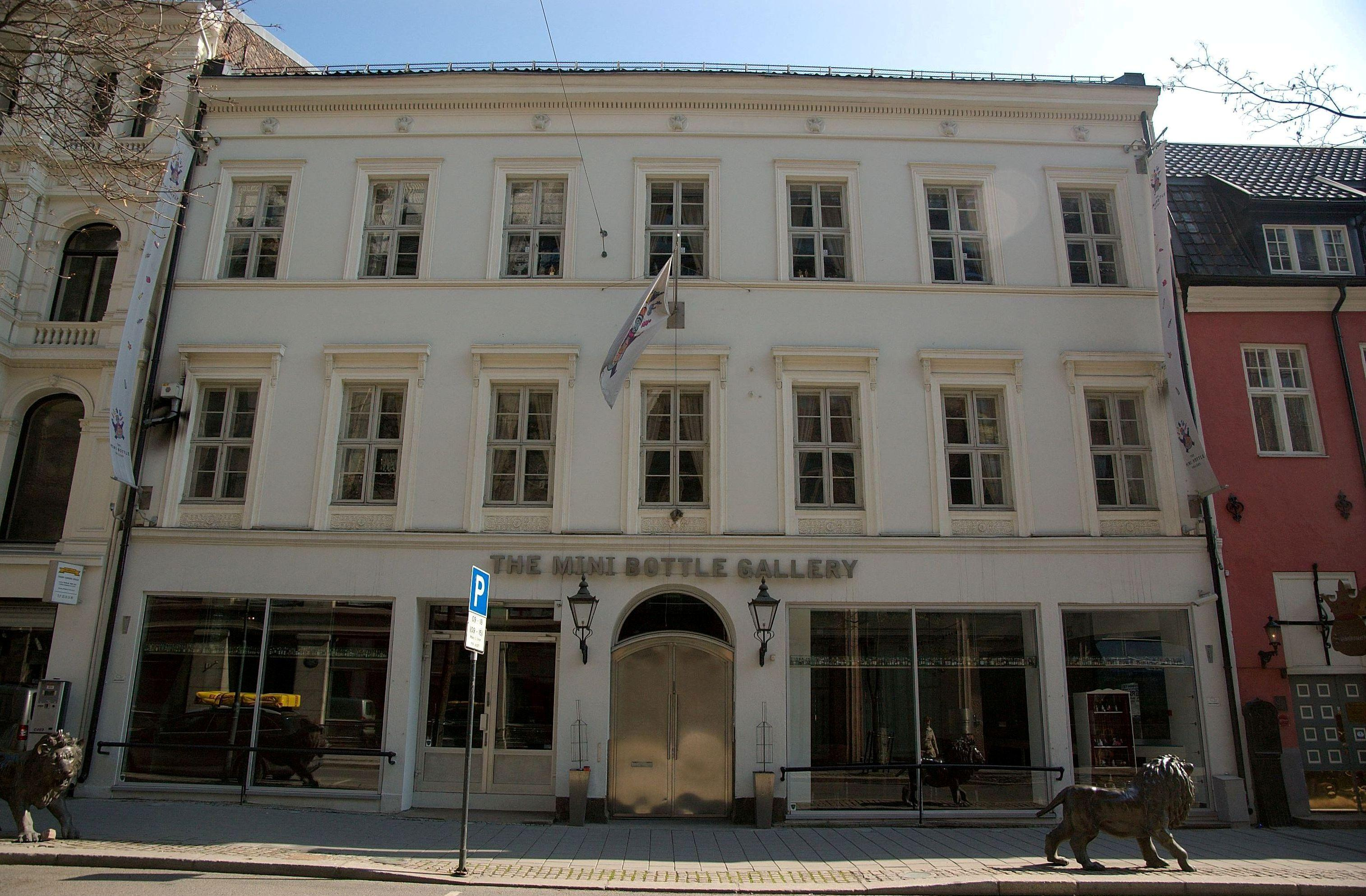 The Mini Bottle Gallery in Oslo.